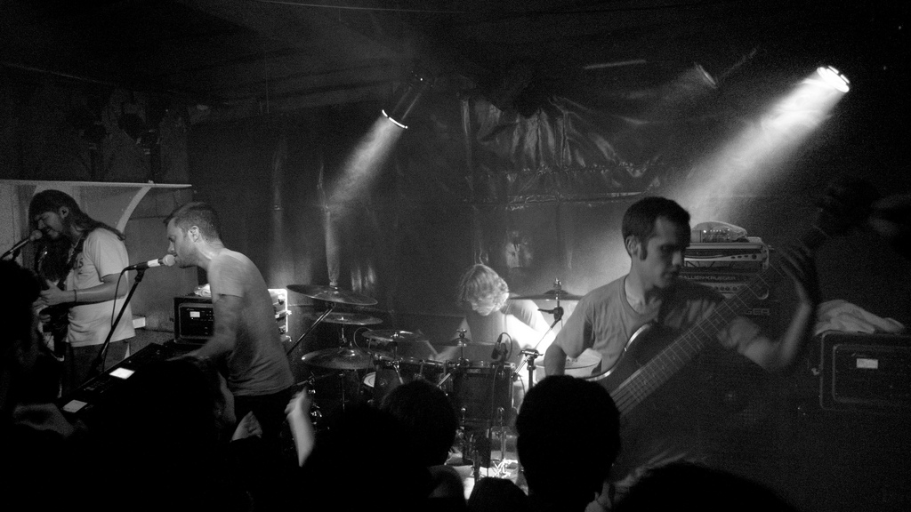 Between the Buried and Me at a concert at Porto-Rio in 2010.